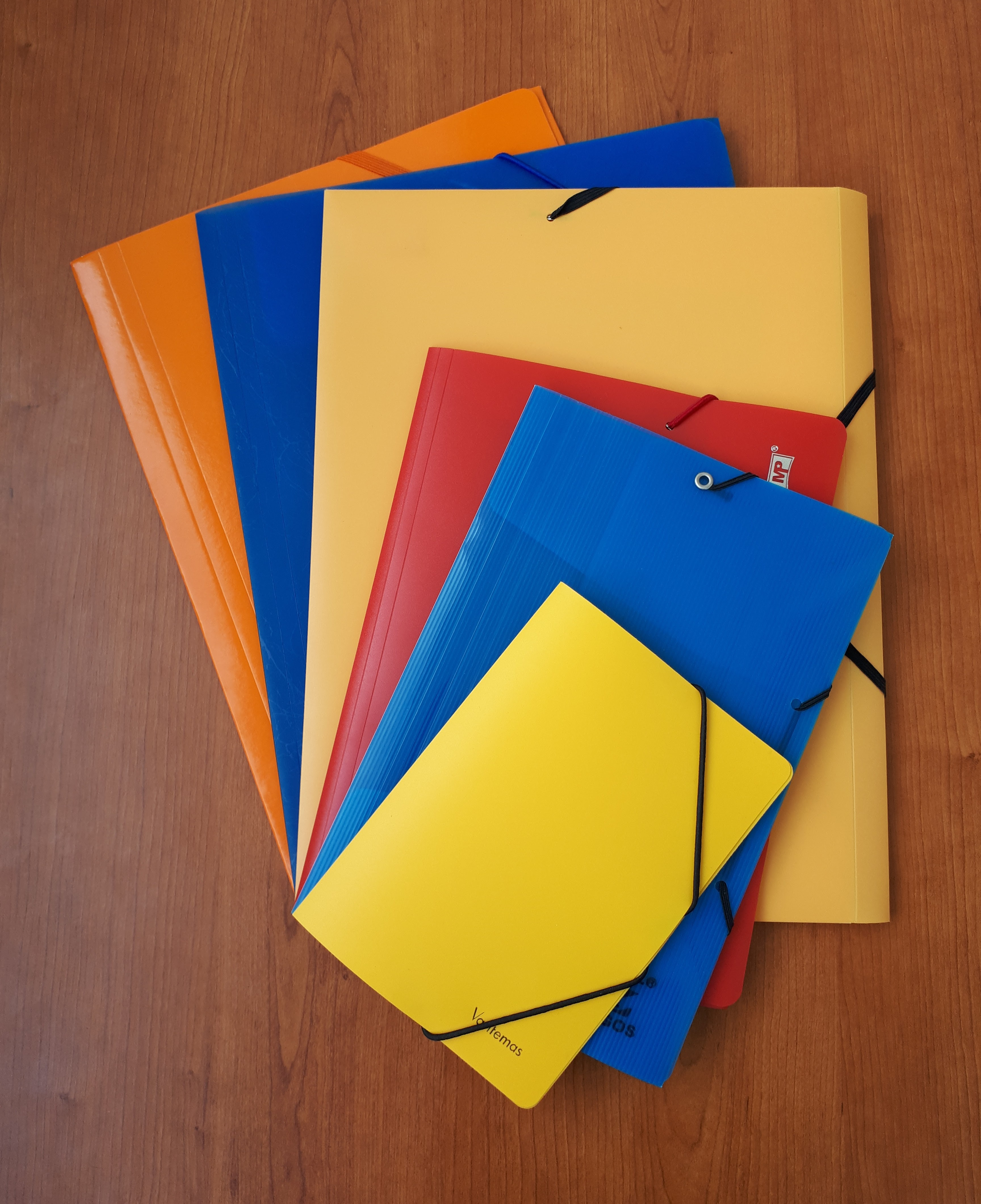 A4 - A5 - A6 folders